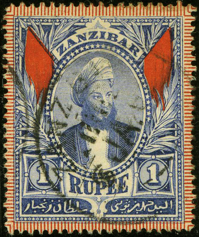 1 Rupee Zanzibar issue 1896, used Yv37 Mi35 SG169 blue or 170 deep blue